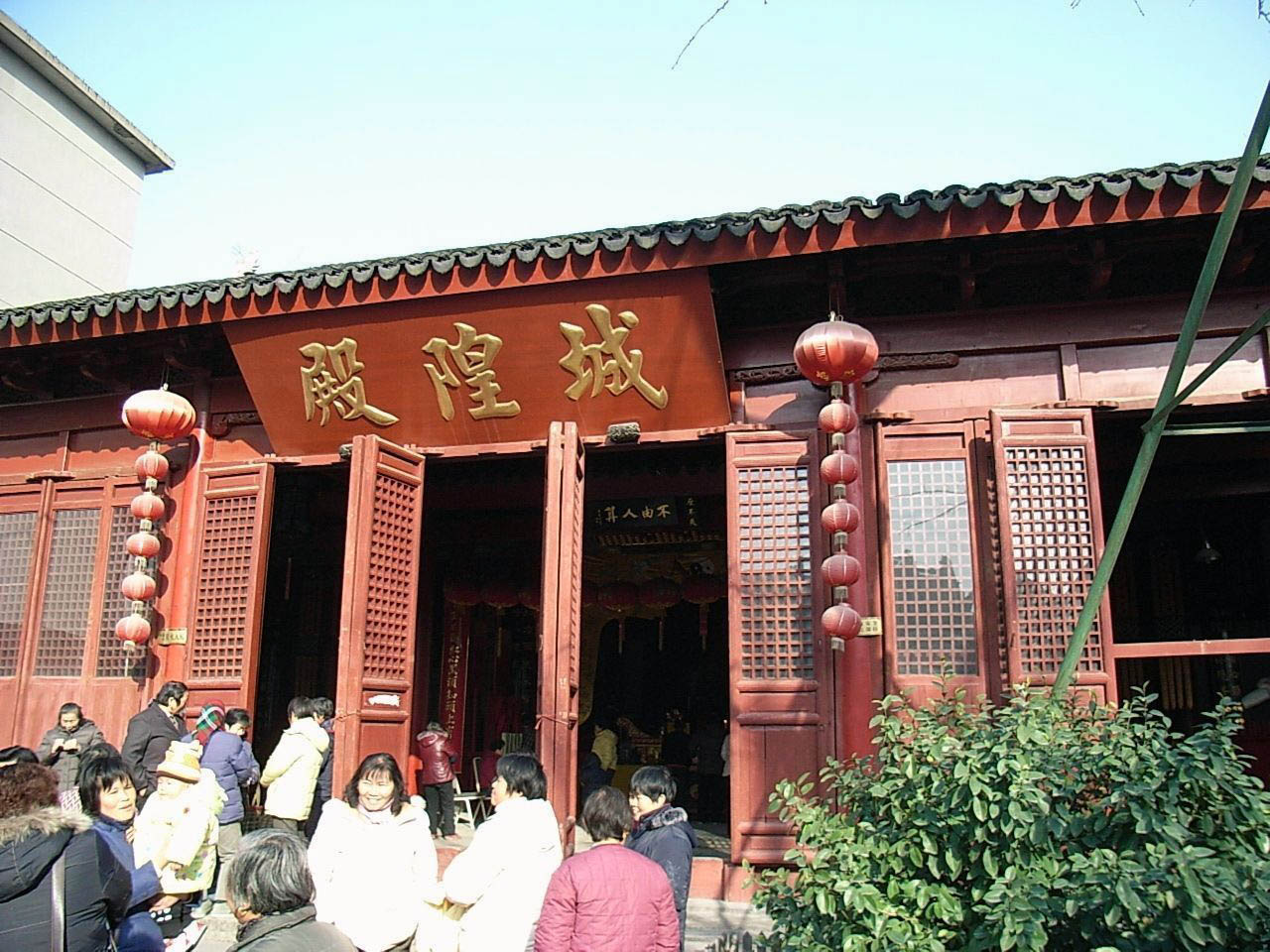 Chenghuang Temple of Suzhou, The main hall constructed in Ming Dynasty